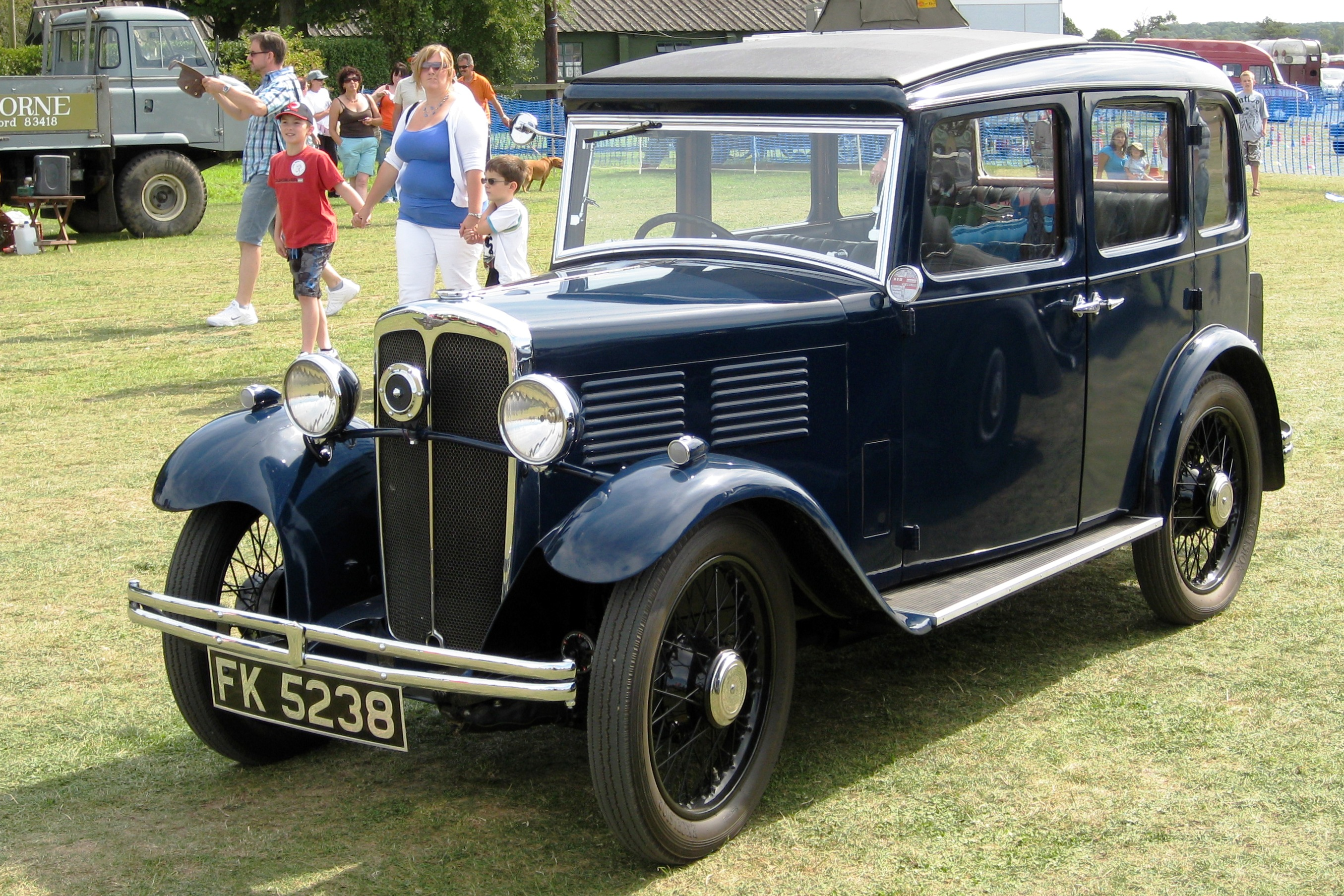 1932 Standard Little 9 mark iii near Bury St Eds